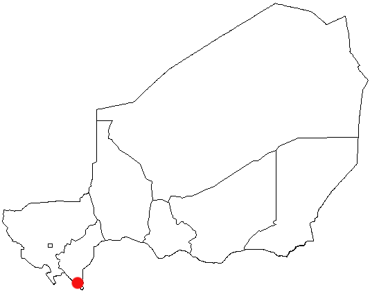 Gaya, Niger Location Map; created with the GIMP. Made by User:Acntx.